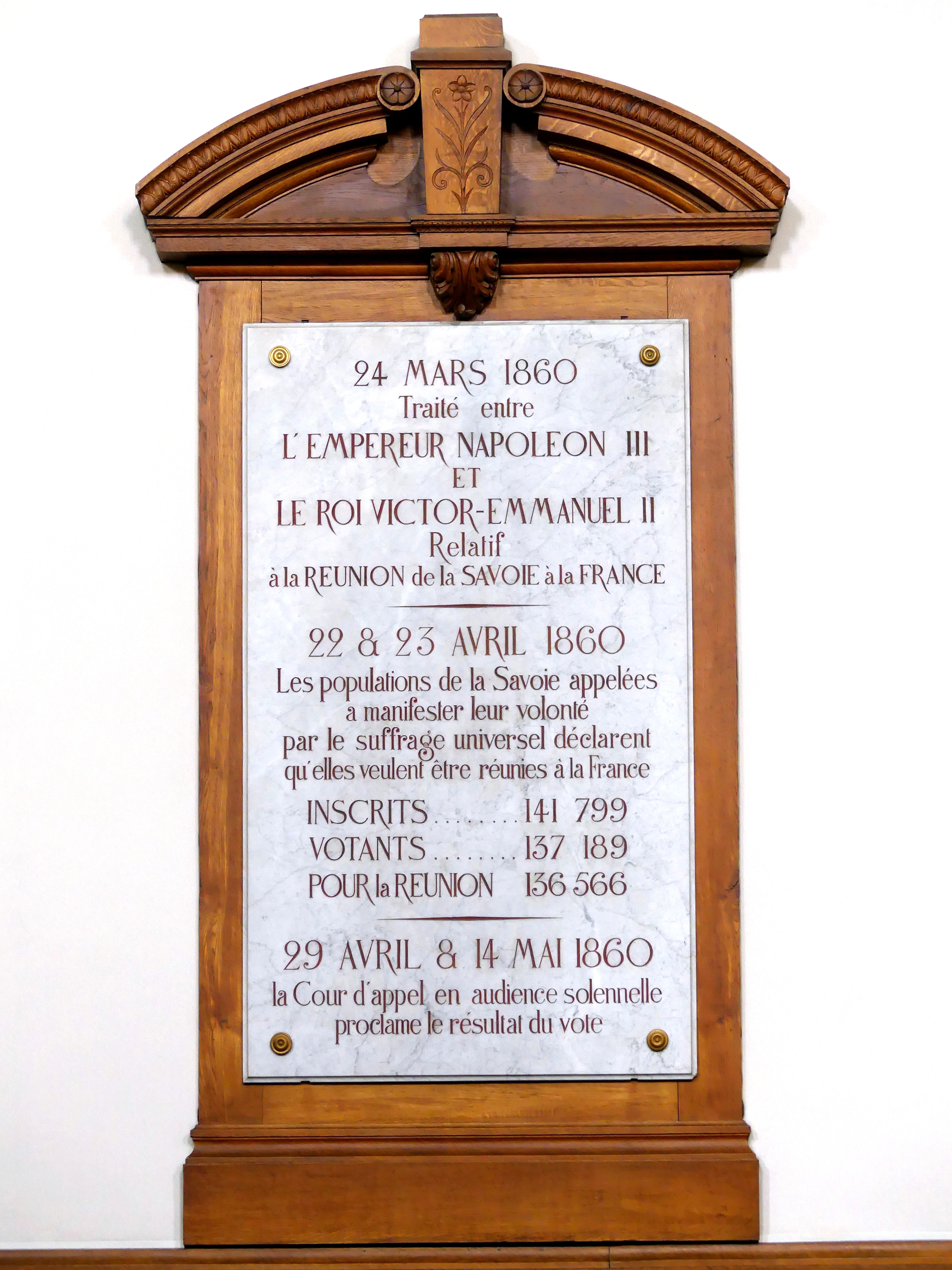 Foundation stone in the Salle des audiences solennelles room of the Chambéry courthouse (Savoie, France), where results of the votation about annexing Savoie by France were made official, in 1860.